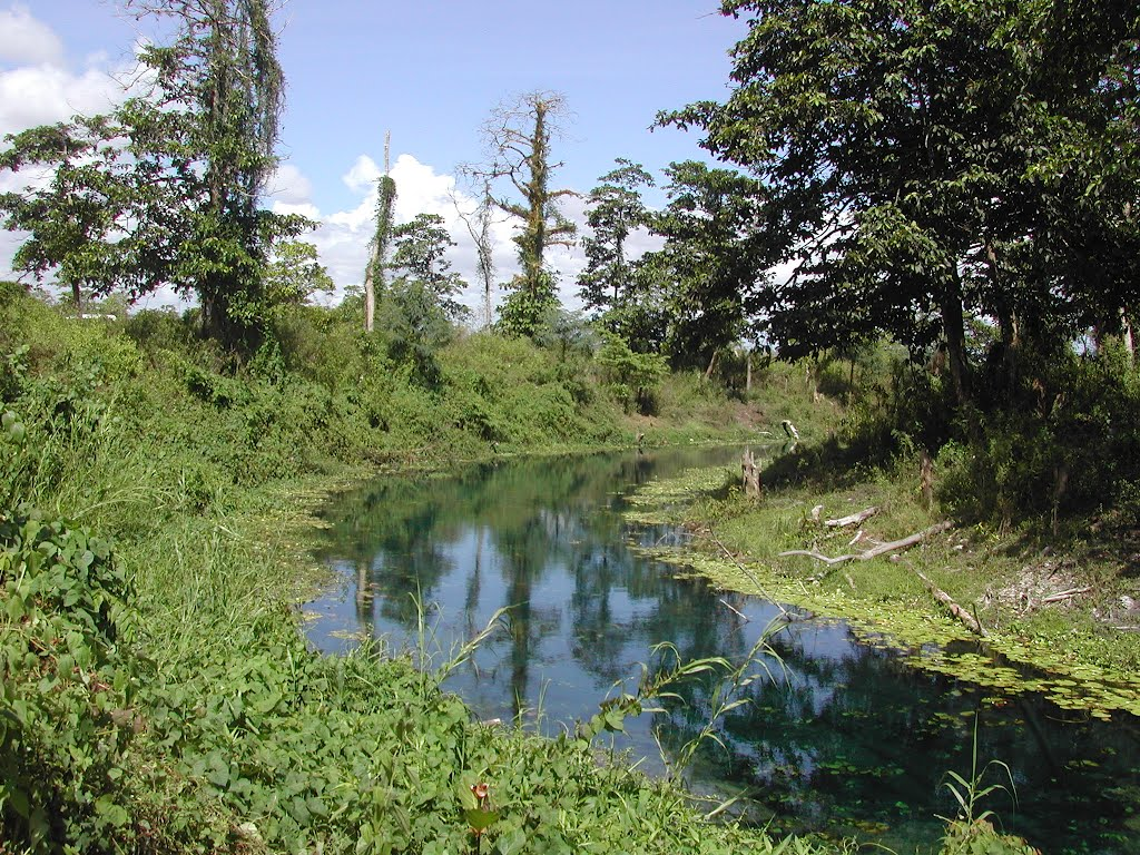 Irasequiro River view near the crossing, Malahara, Lautem, Timor-Leste